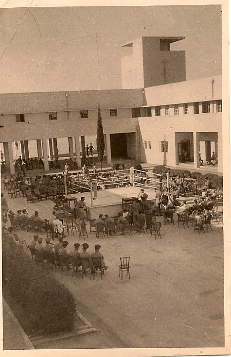 Boxing match at the Palestine Police Depot and Training school, Mount Scopus, Jerusalem. May - August 1943.